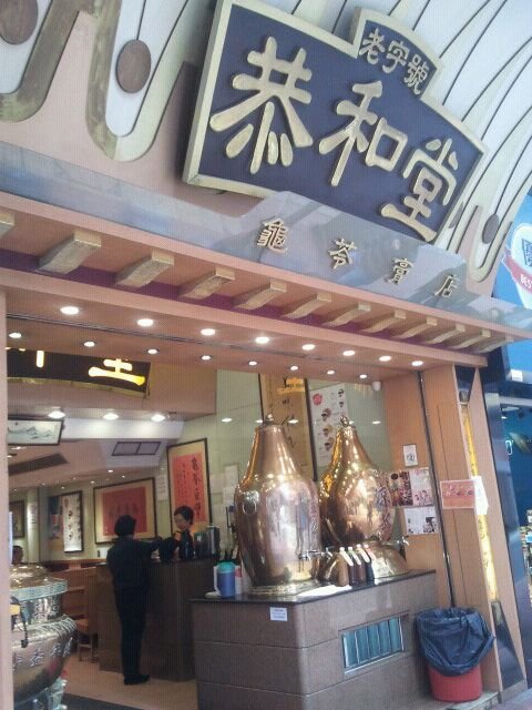 A Chinese herbal tea shop called Kung Wo Tong in Causeway Bay, Hong Kong. Kung Wo Tong (恭和堂) G/F,87 Percival Street, Causeway Bay, Hong Kong.